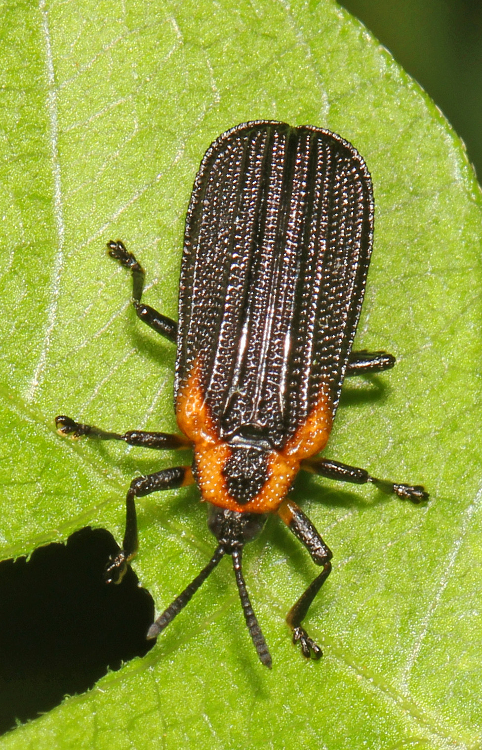 Orange-shouldered Leaf Miner - Odontota scapularis, Allens Fresh, Maryland. Charles County 7/5/2014